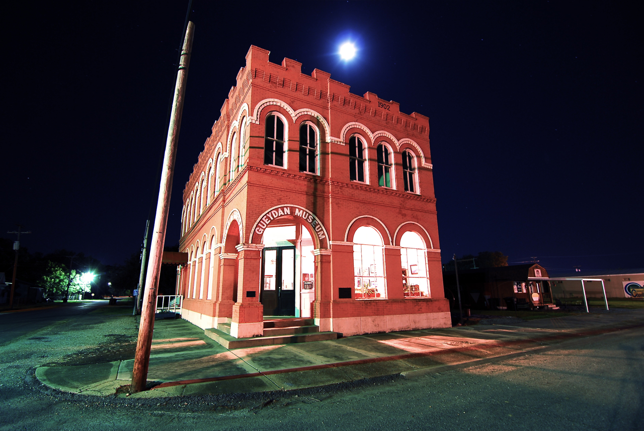 The historic Gueydan Museum, Gueydan, Louisiana. Night view.